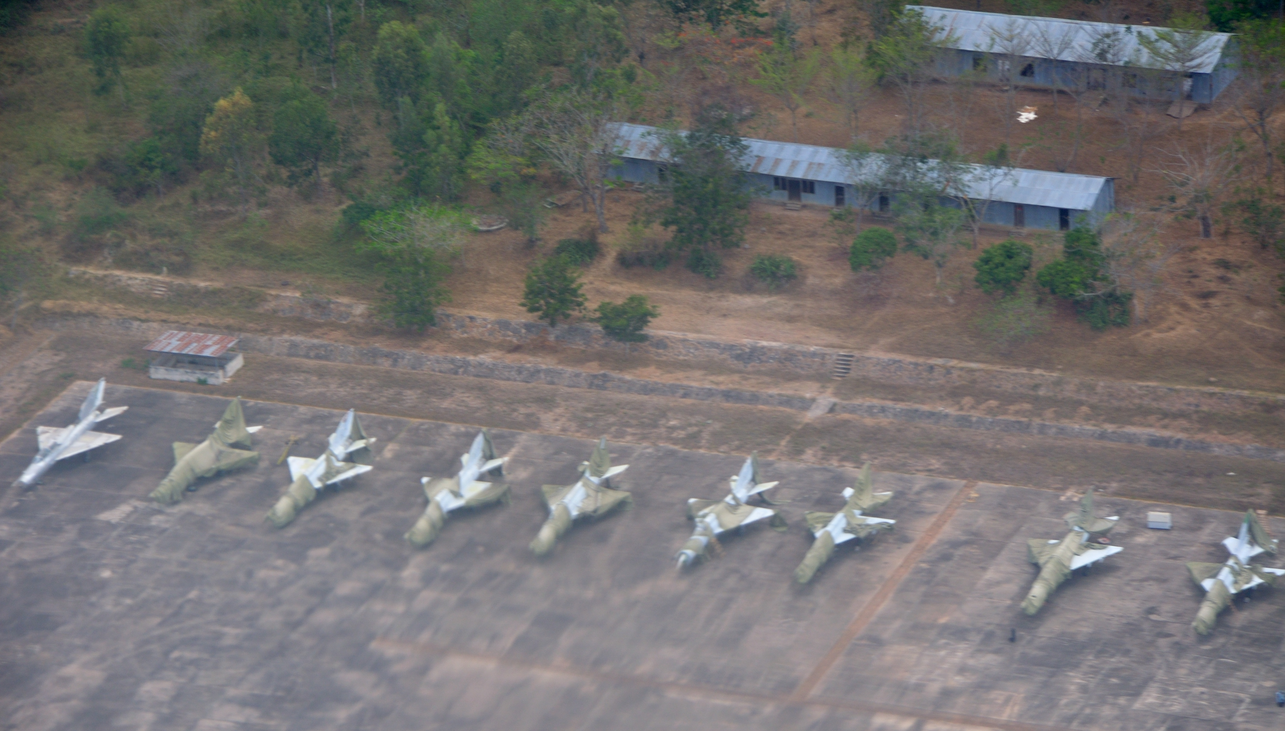 Tanzania, Worn out MiG-21's parked at Mwanza AB. The story of these aircraft can be found on various websites.